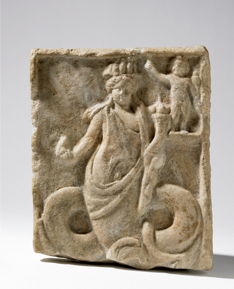 Marble relief of Dionysos with a snake's body supported by an eagle with outstretched wings. Only the head and tips of the eagle's wings survive as the relief is broken at this point. Dionysos wears a nebris and himation and a hemhemet crown. He carries a cornucopia and a bunch of grapes. Harpokrates stands in the top left corner. The carving is in shallow relief and surrounded by a frame.